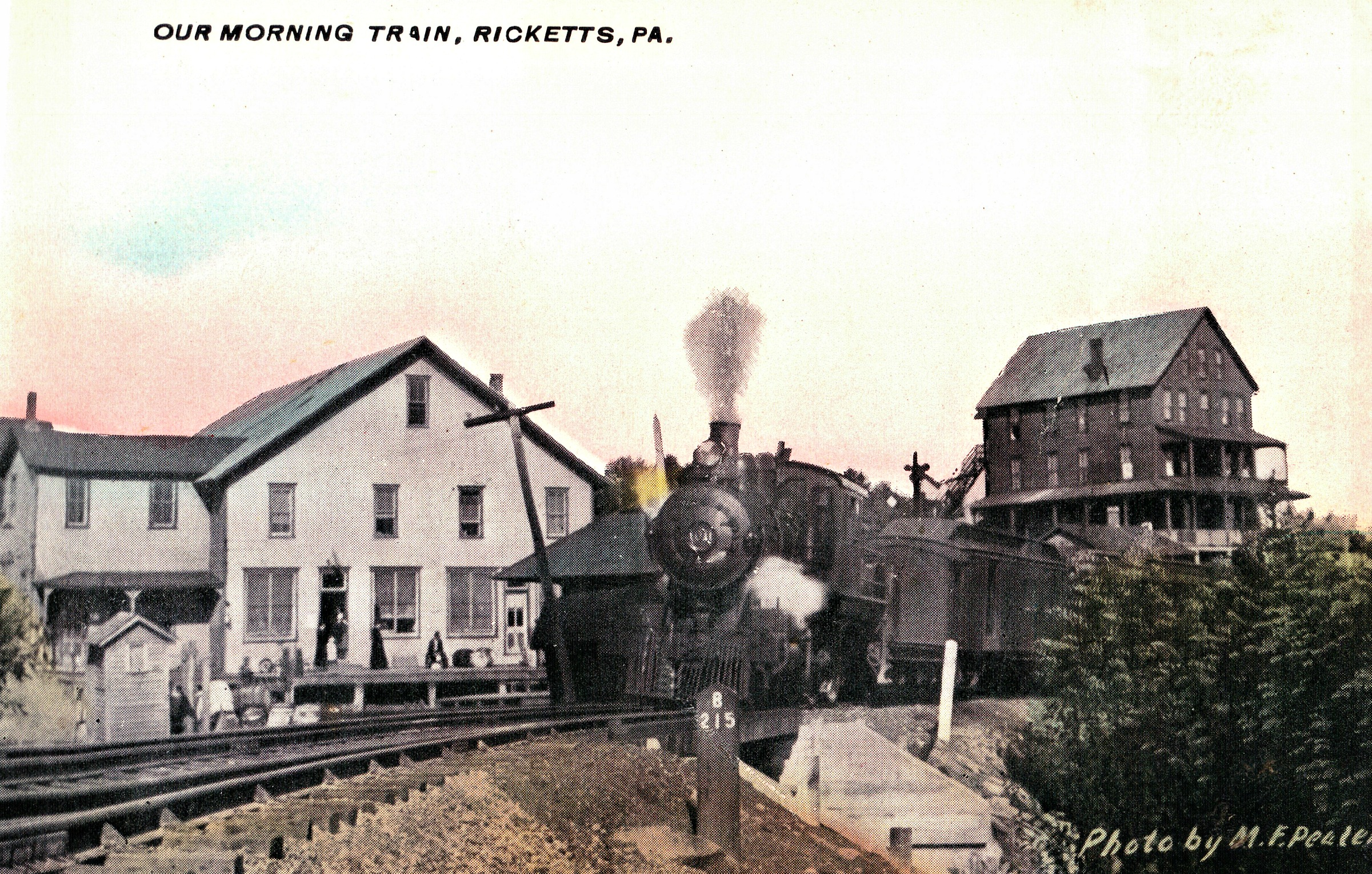 Postcard of Ricketts, a former lumber town in Sullivan and Wyoming Counties, Pennsylvania, USA. Ricketts was founded in 1890 and abandoned after 1913 when the lumber mill closed (by 1914 the town was down to five families, and the last buildings were demolished in the 1930s). Rail service ended when the mill closed.